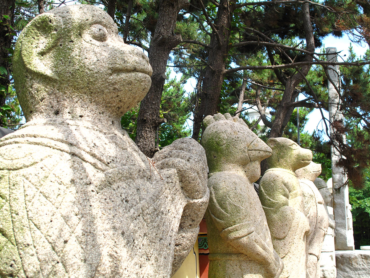 Animal statues at Yongungsa Temple, Busan, Korea